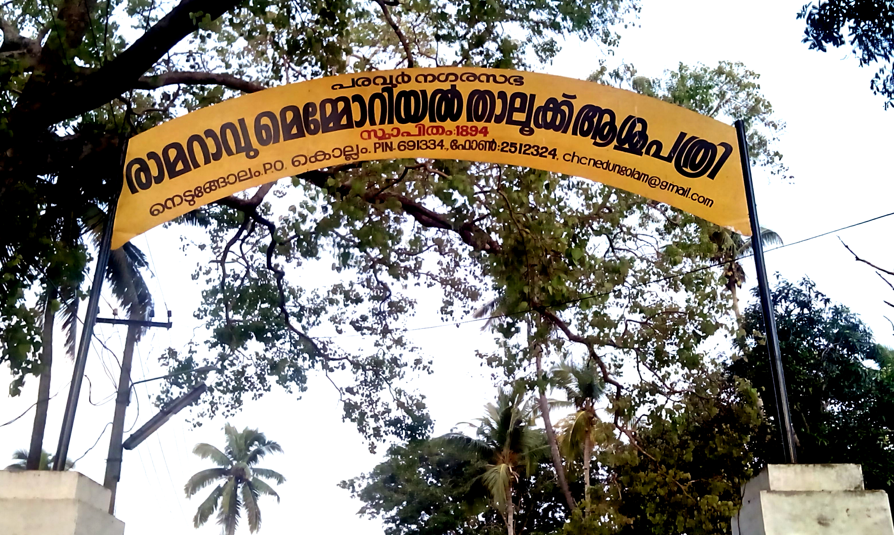 Rama Rao memorial Govt. Taluk Hospital is situated at Nedungolam, Paravur